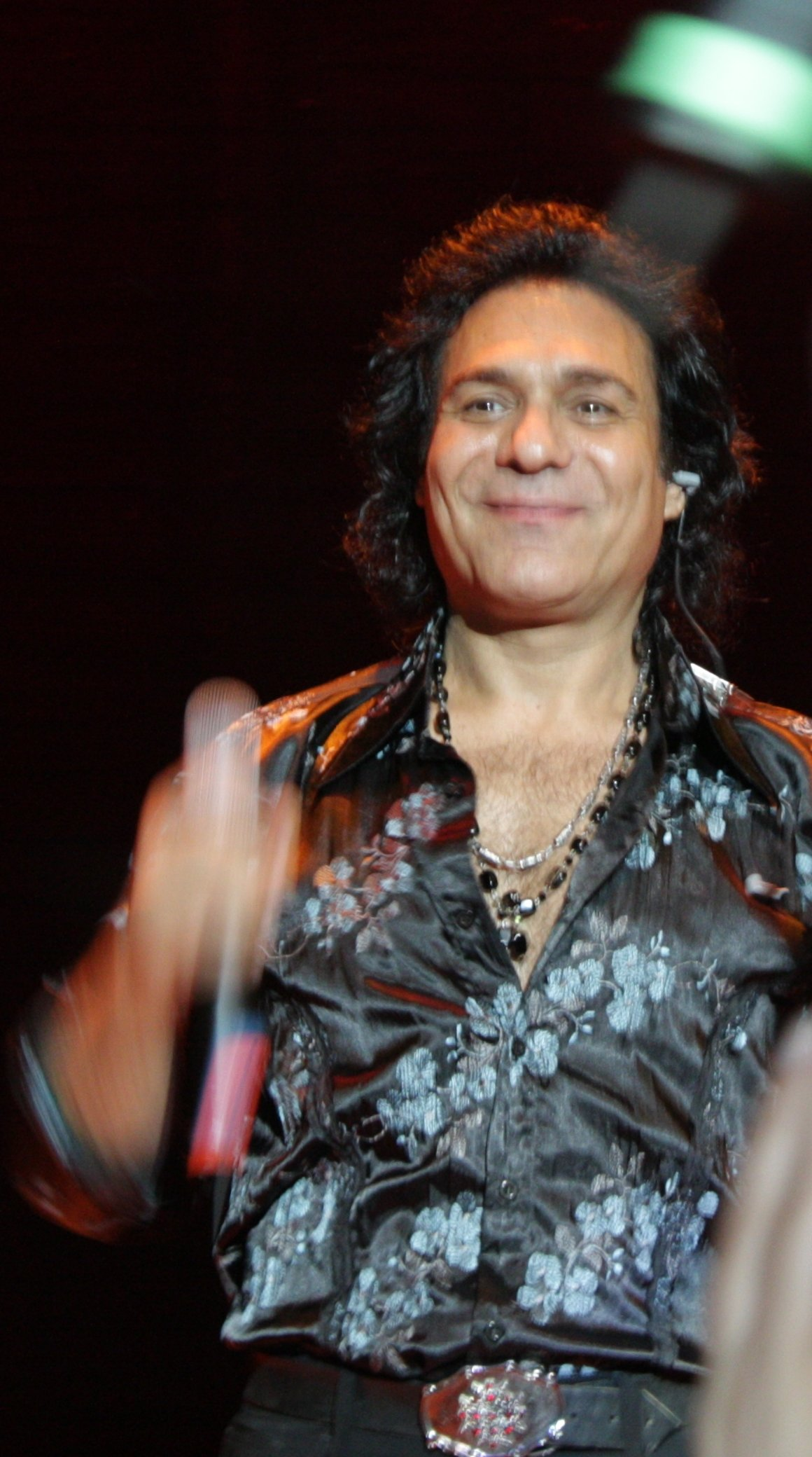 Andy in DC (Andranik Madadian).